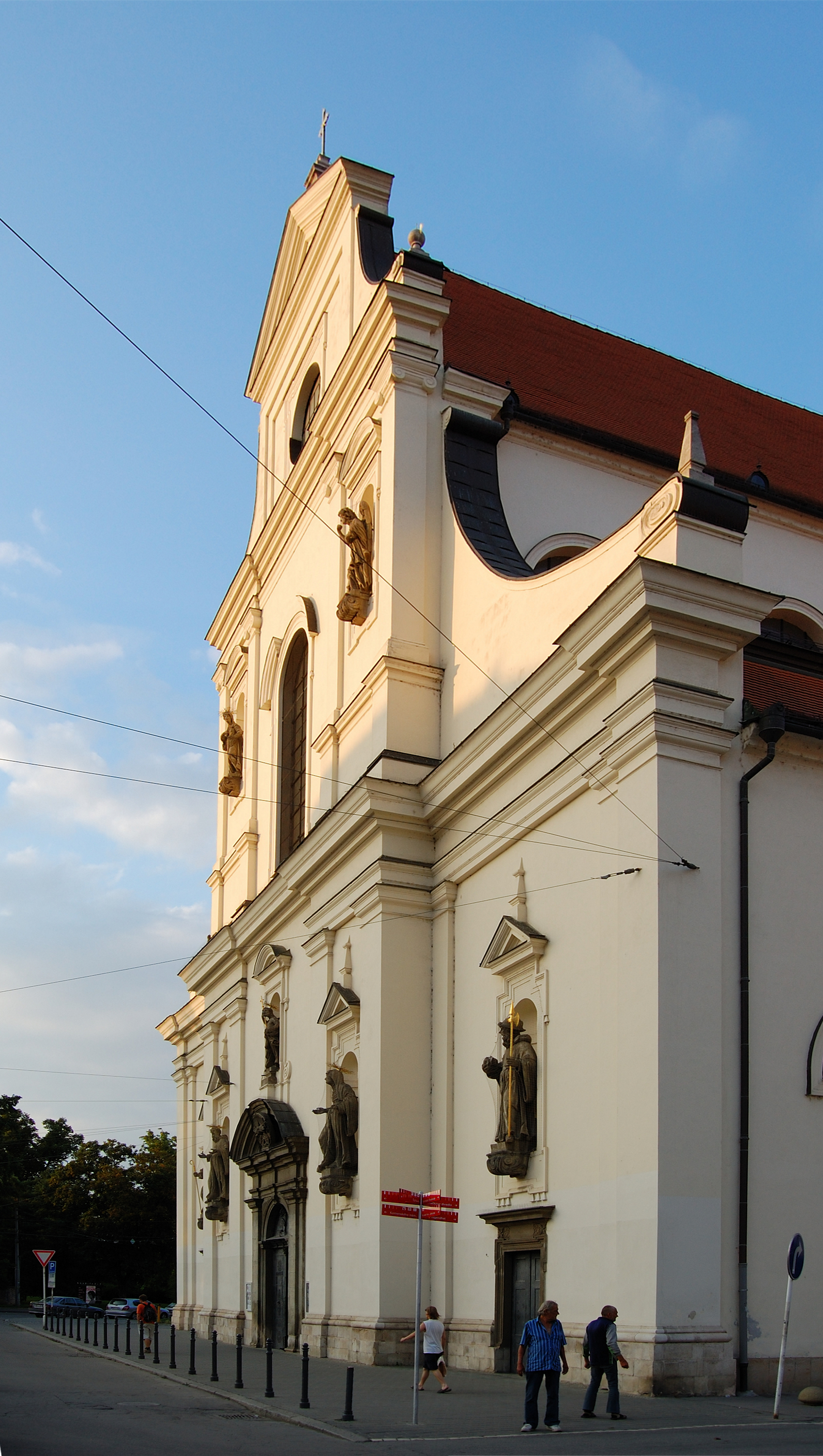 Saint Thomas's Church in Brno, Czech Republic.